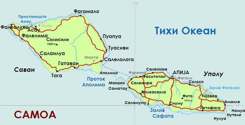 Map of Samoa on Macedonian language.